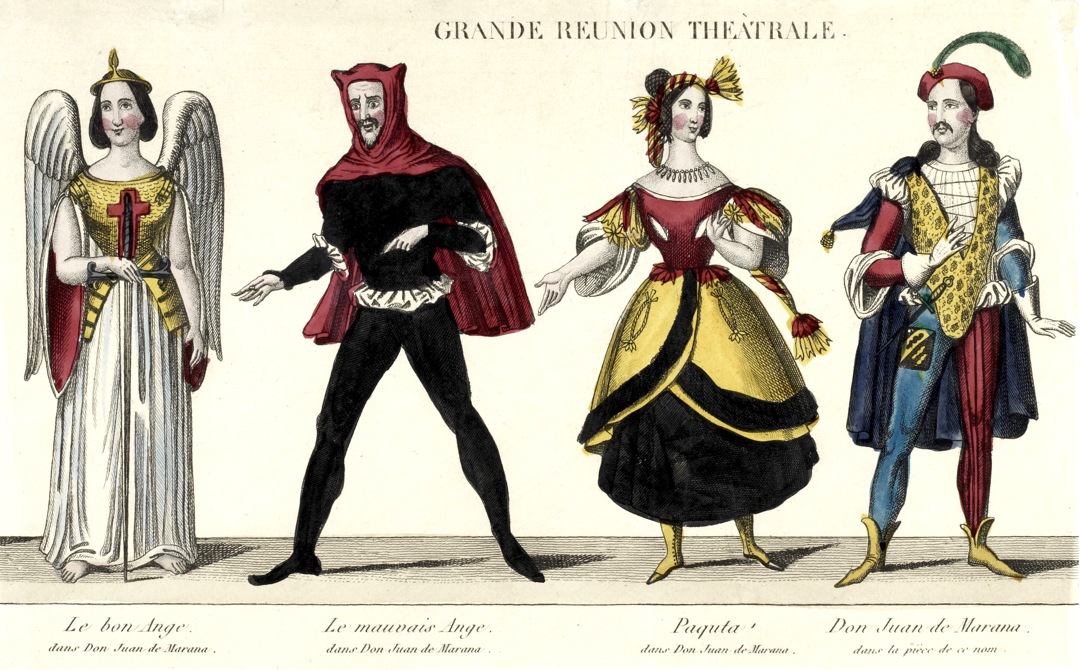 Mademoiselle Ida (Le Bon Ange), Étienne Mélingue (Le Mauvais Ange), Madame Astruc (Paquita), Durocher (Don Juan de Marana) in costumes in Don Juan de Marana ou La chute d'un ange : mystère en 5 actes et 7 tableaux / texte d'Alexandre Dumas. - Paris : Théâtre de la Porte Saint-Martin, 30-04-1836.